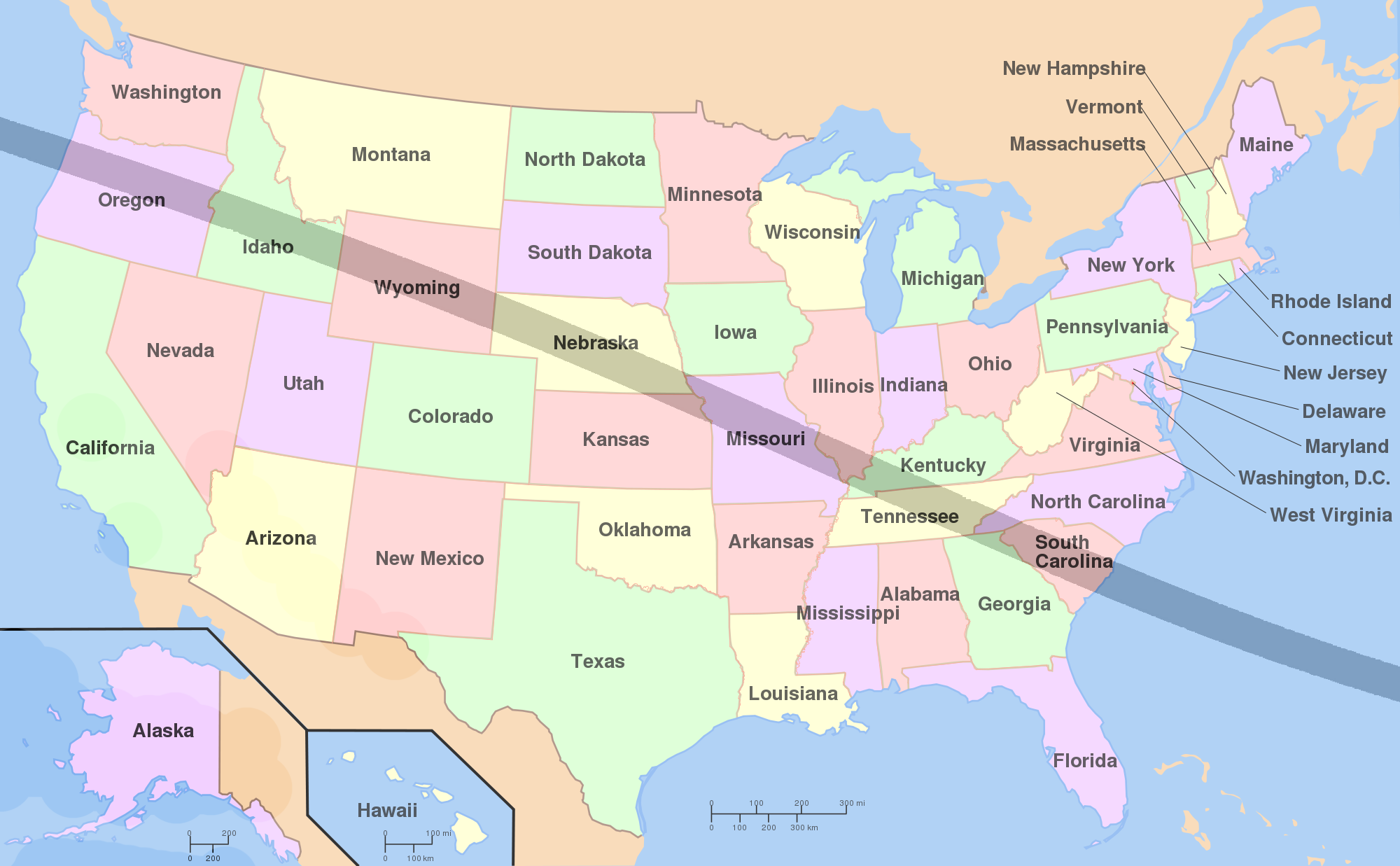 Path of umbra of solar eclipse of 2017-08-21 with respect to U.S. states